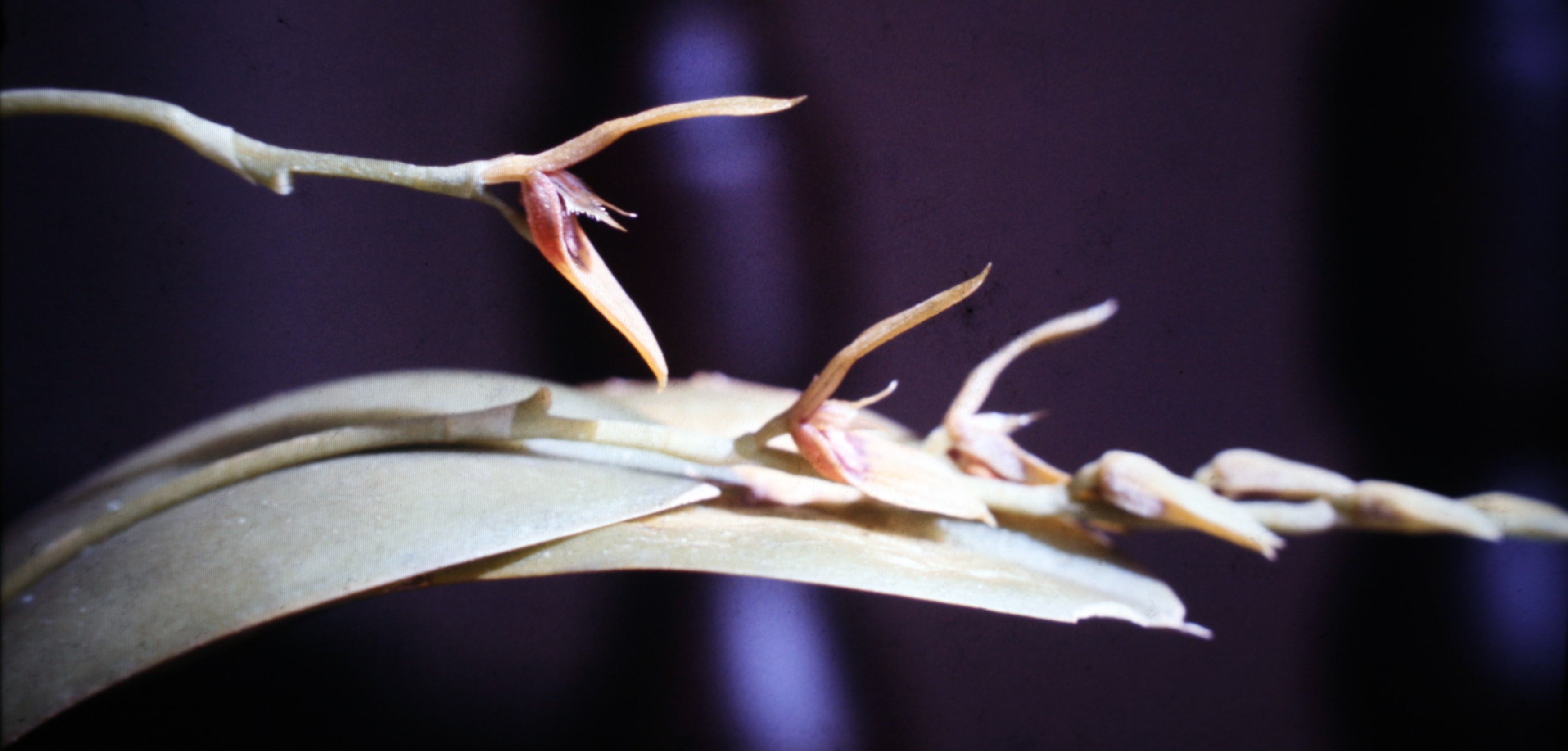 Pleurothallis lanceana. Suriname.